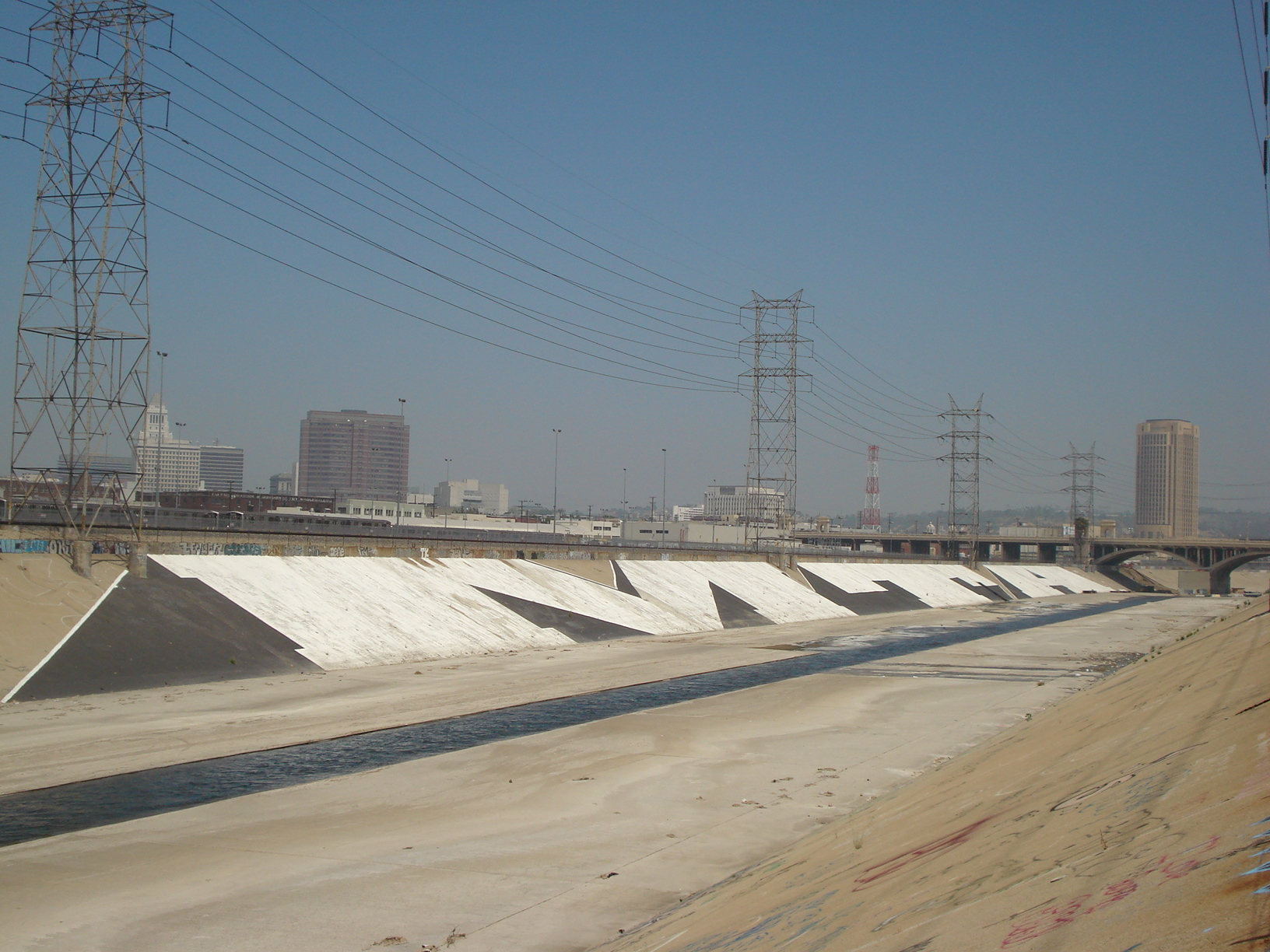 MTA blockbuster bombing in L.A. river, usa